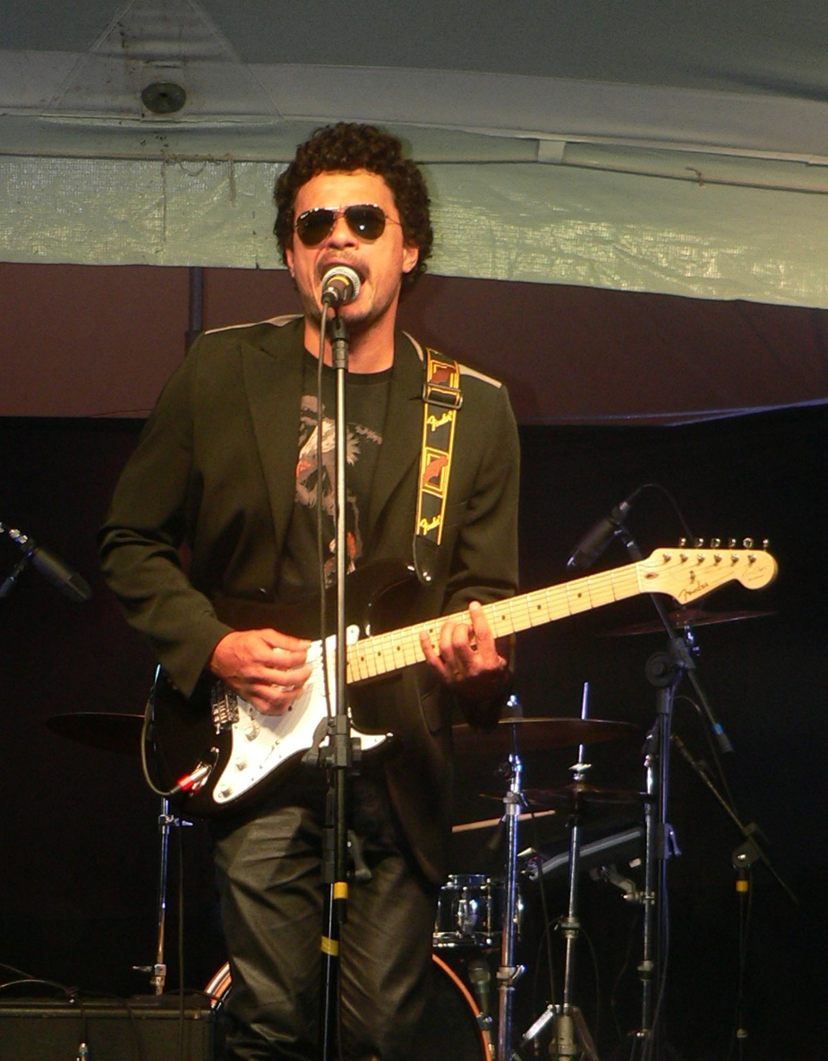 Brazilian singer Léo Maia, adoptive son of Tim Maia, performing live in a festival of Cotia, São Paulo, Brazil.